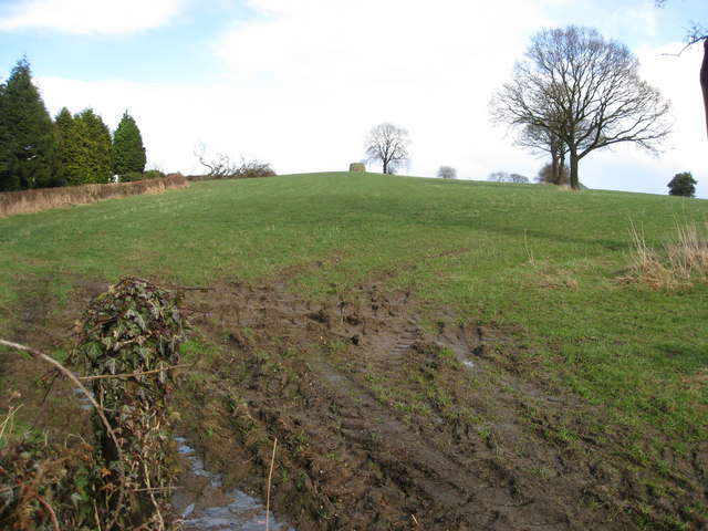 Remains of Windmill View from Lynam Road near Fritchley.